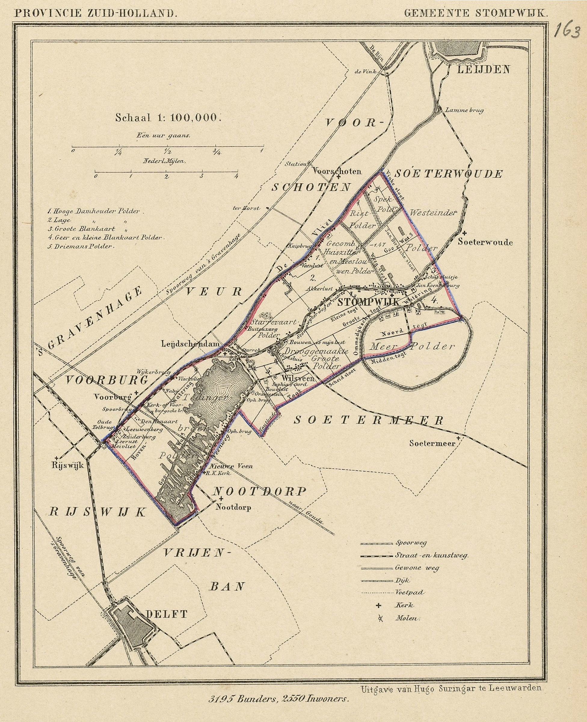 Map of the former municipality of Stompwijk, around 1865-1870 (currently part of the municipality Leidschendam-Voorburg, South Holland, the Netherlands).